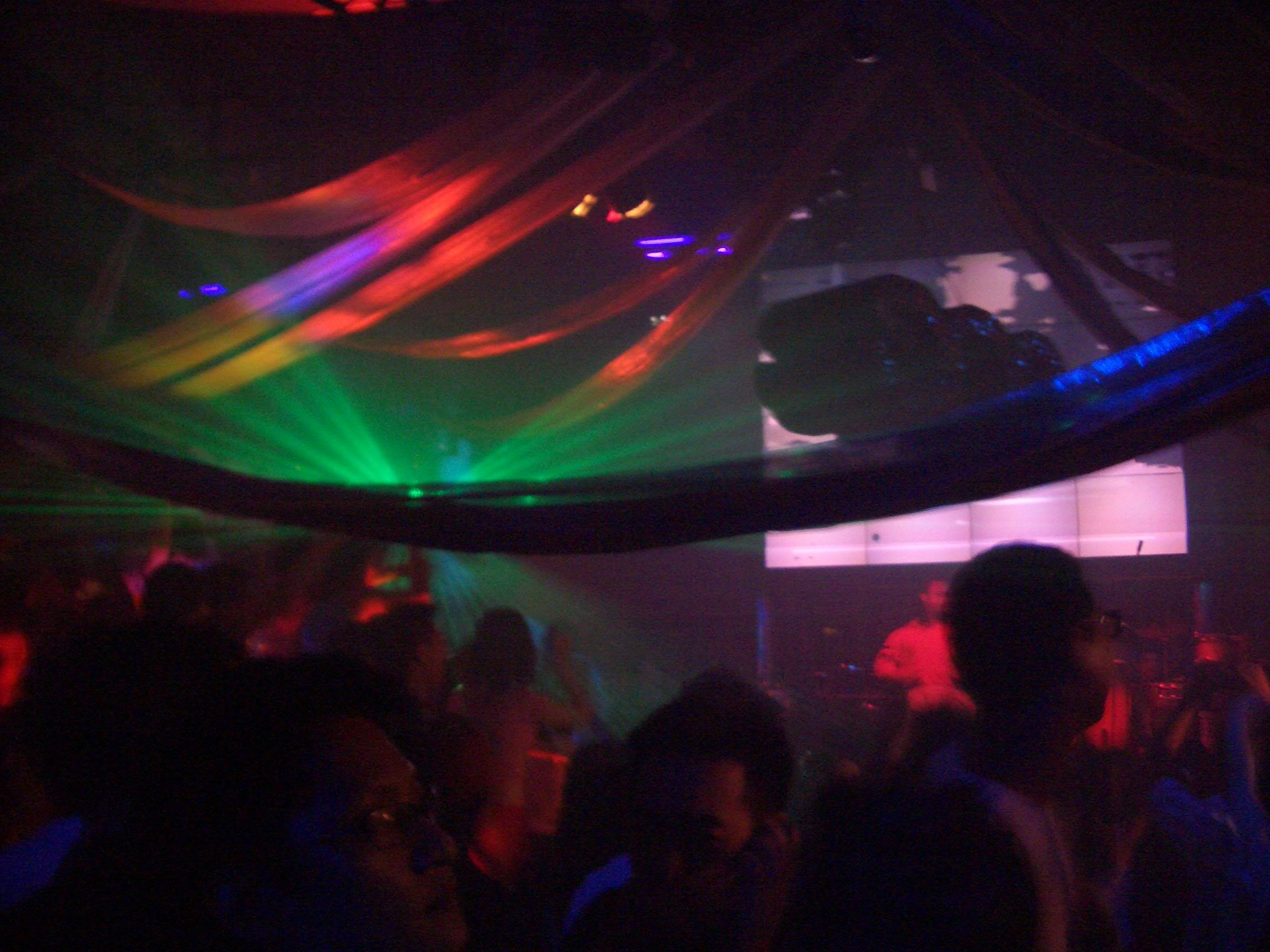 This club is a legend in Singapore and attracts top-name DJs from around the world (2004)